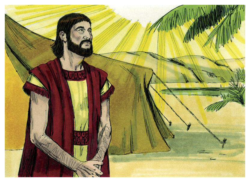 Biblical illustration of Book of Genesis Chapter 12